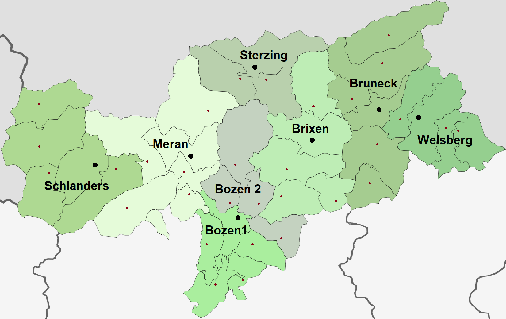 South Tyrol: forest inspectorates and forest stations (map)